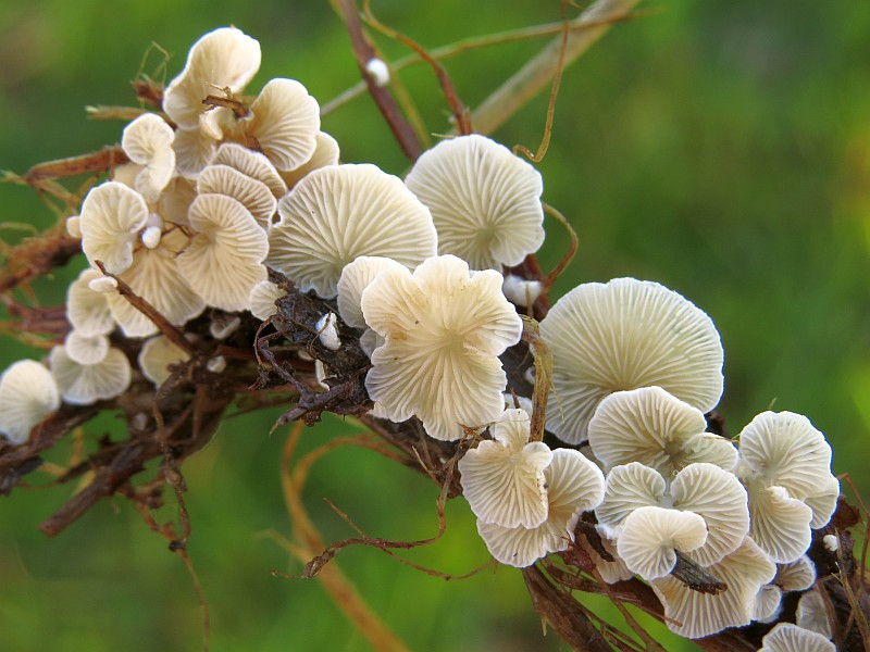 Crepidotus epibryus (Cortinariaceae), Culemborg - Goilberdingerwaard, the Netherlands